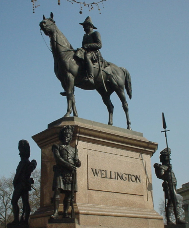 Statue Of The Duke Of Wellington-Hyde Park Corner London